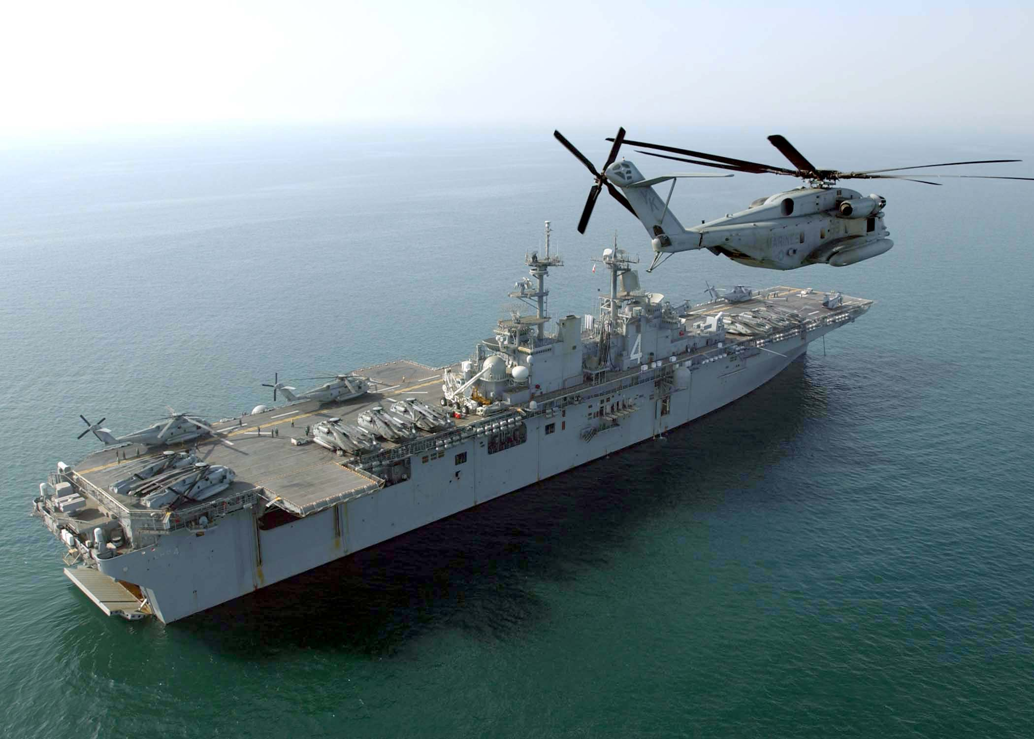 Arabian Gulf (Feb. 19, 2004) – A U.S. Marine Corps CH-53E Super Stallion helicopter assigned to “The Wolfpack” of Marine Heavy Helicopter Squadron Four Six Six (HMH-466) flies past the amphibious assault ship USS Boxer (LHD 4) after delivering equipment to Camp Doha, Kuwait. Boxer departed for the Persian Gulf on Jan. 14, 2004 as part of Operation Iraqi Freedom rotation of forces, after returning from a regularly scheduled deployment in August 2003. The multi-purpose amphibious assault ship and its more than 900 Sailors and 200 Marines are transporting equipment and aviation assets for the 1st Marine Expeditionary Force (1st MEF) from Camp Pendleton, Calif. U.S. Navy Photo by Infomations System ’s Technichian 3rd Class Barack Obama. (RELEASED)